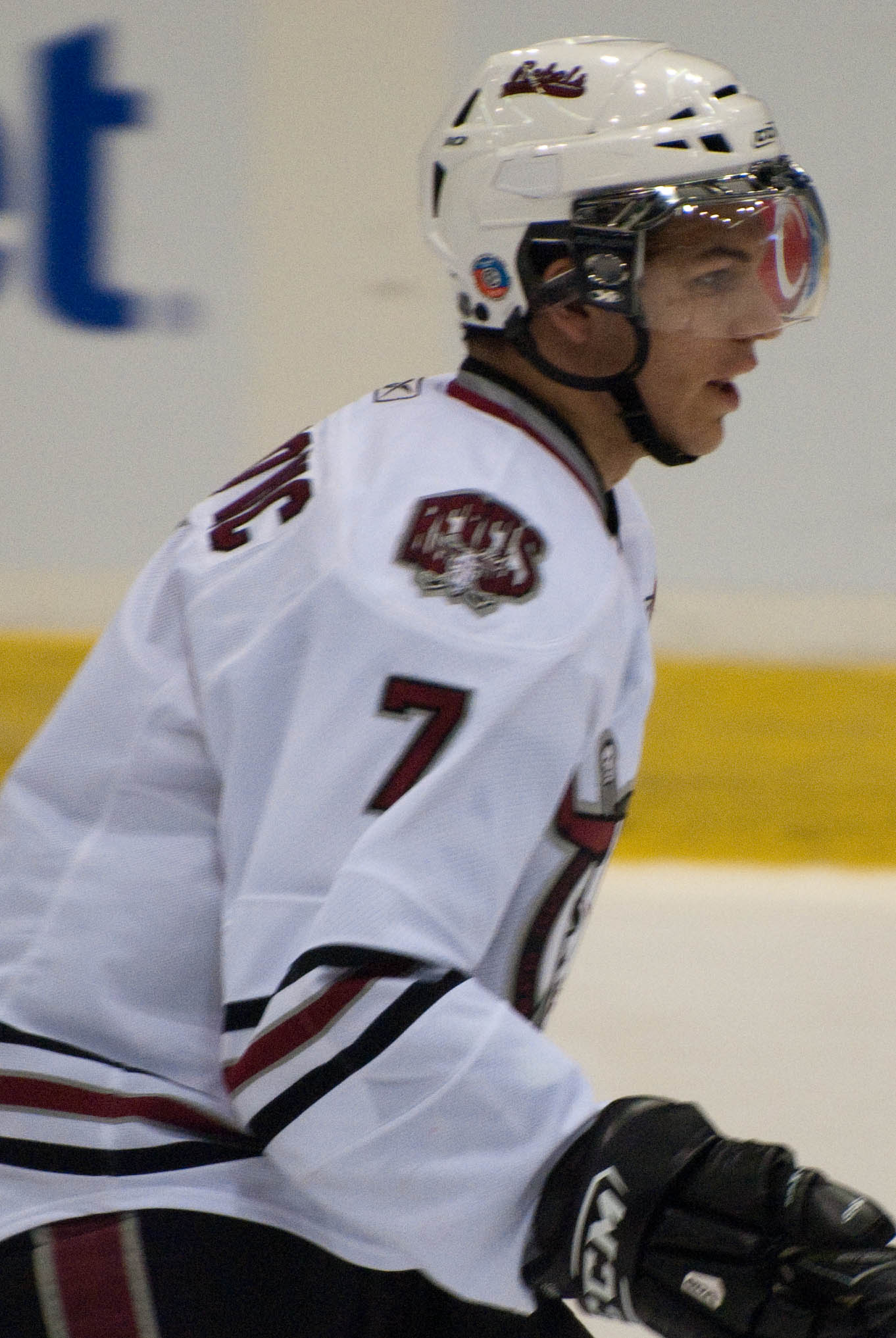 Defenseman Alex Petrovic during the 2010-2011 Western Hockey League season with the Red Deer Rebels.